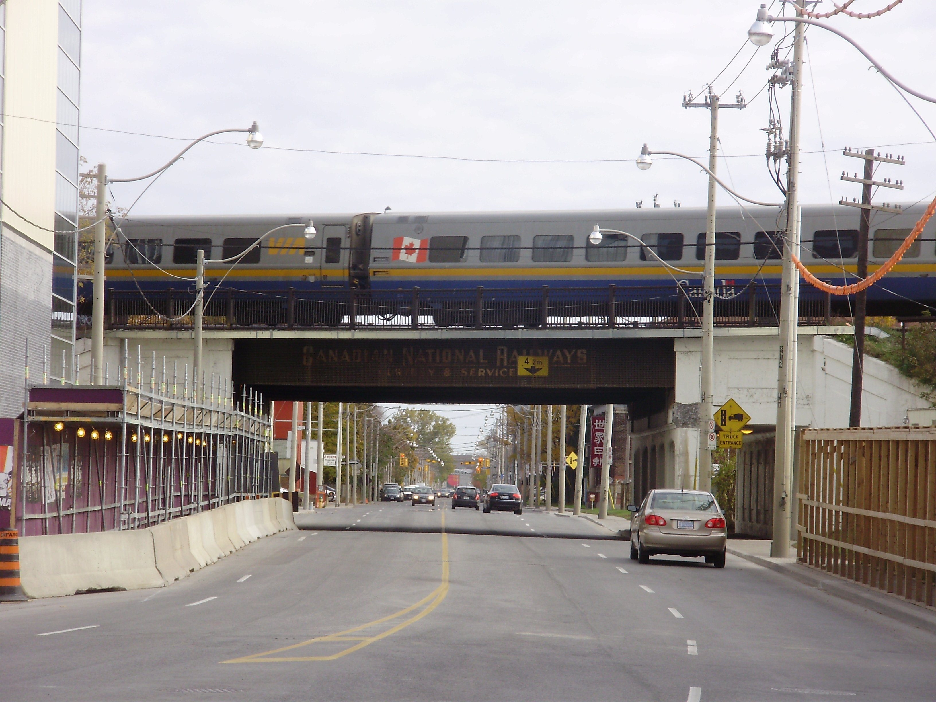 A VIA Rail train crosses above Eastern Avenue as it travels west toward Union Station in Toronto, Ontario, Canada.